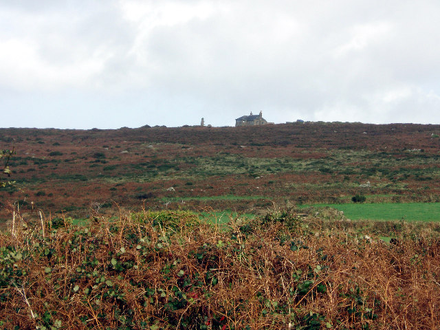 Remote cottage at Garden Mine. The ruins of Garden Mine are perched on the west side of Watch Croft, and can be seen from the coast road.